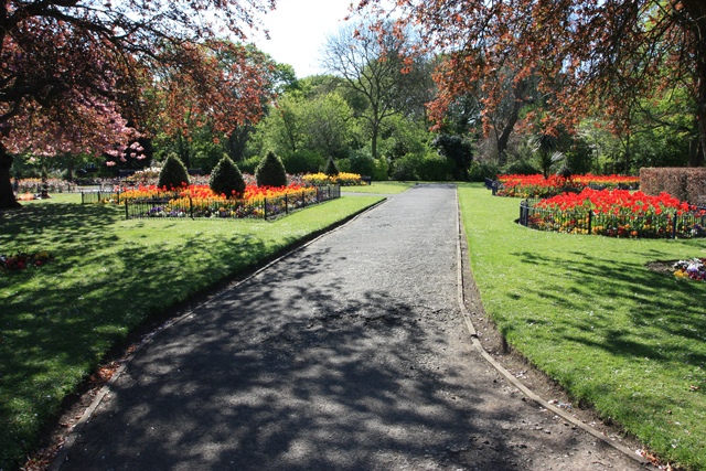 Flower gardens in Pearson Park With a wonderful splash of colour from the tulips and cherry trees.